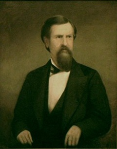 Tennessee Governor James D. Porter (1828–1912)